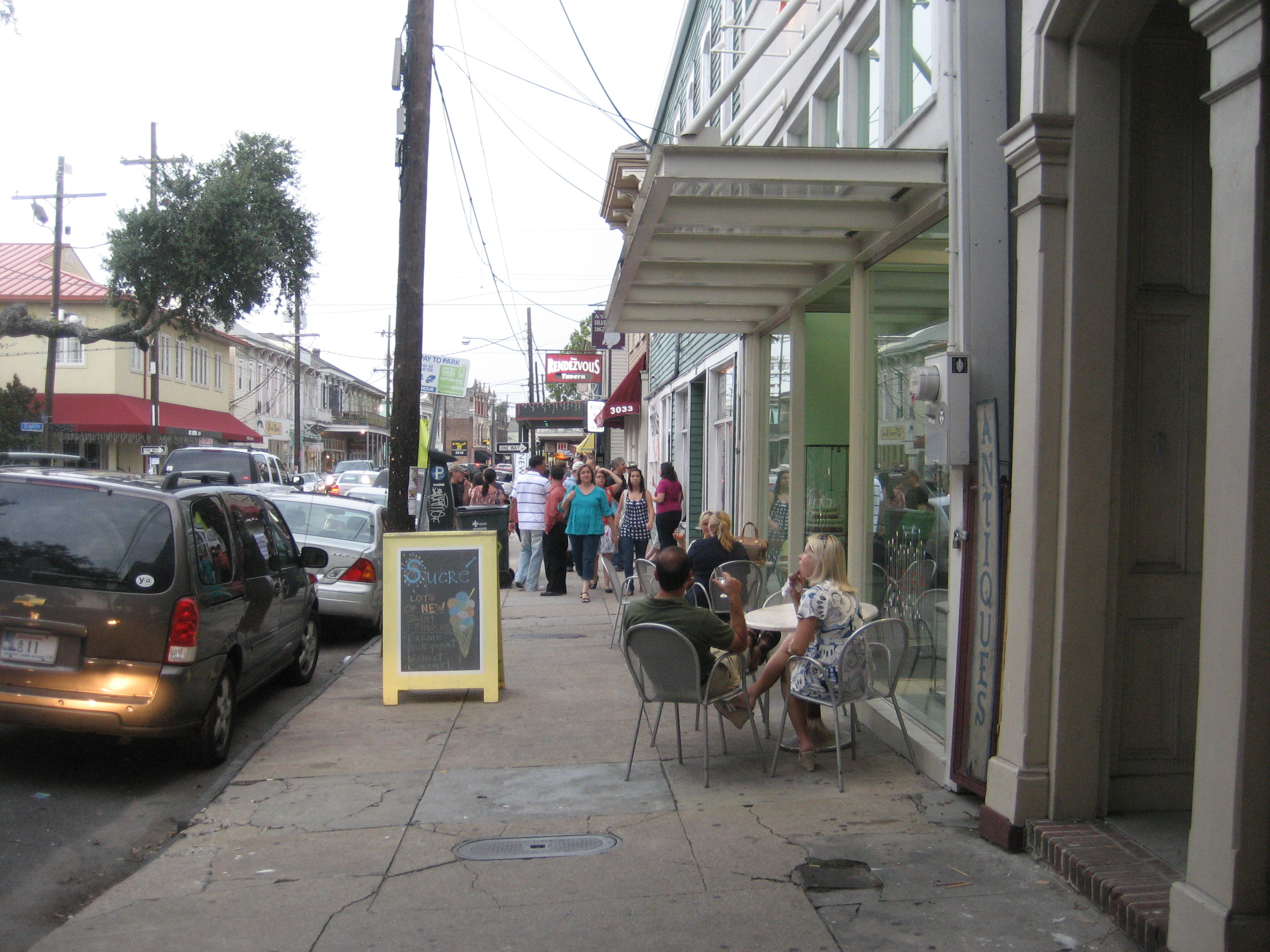 Uptown New Orleans: Summer Saturday Evening on commercial stretch of Magazine Street. Eating ice cream on sidewalk tables.